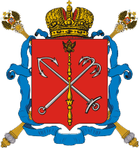 St. Petersburg, proposal large coat of arms (XIX century)